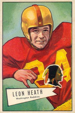 American football player Leon Heath on a 1952 Bowman Large card.